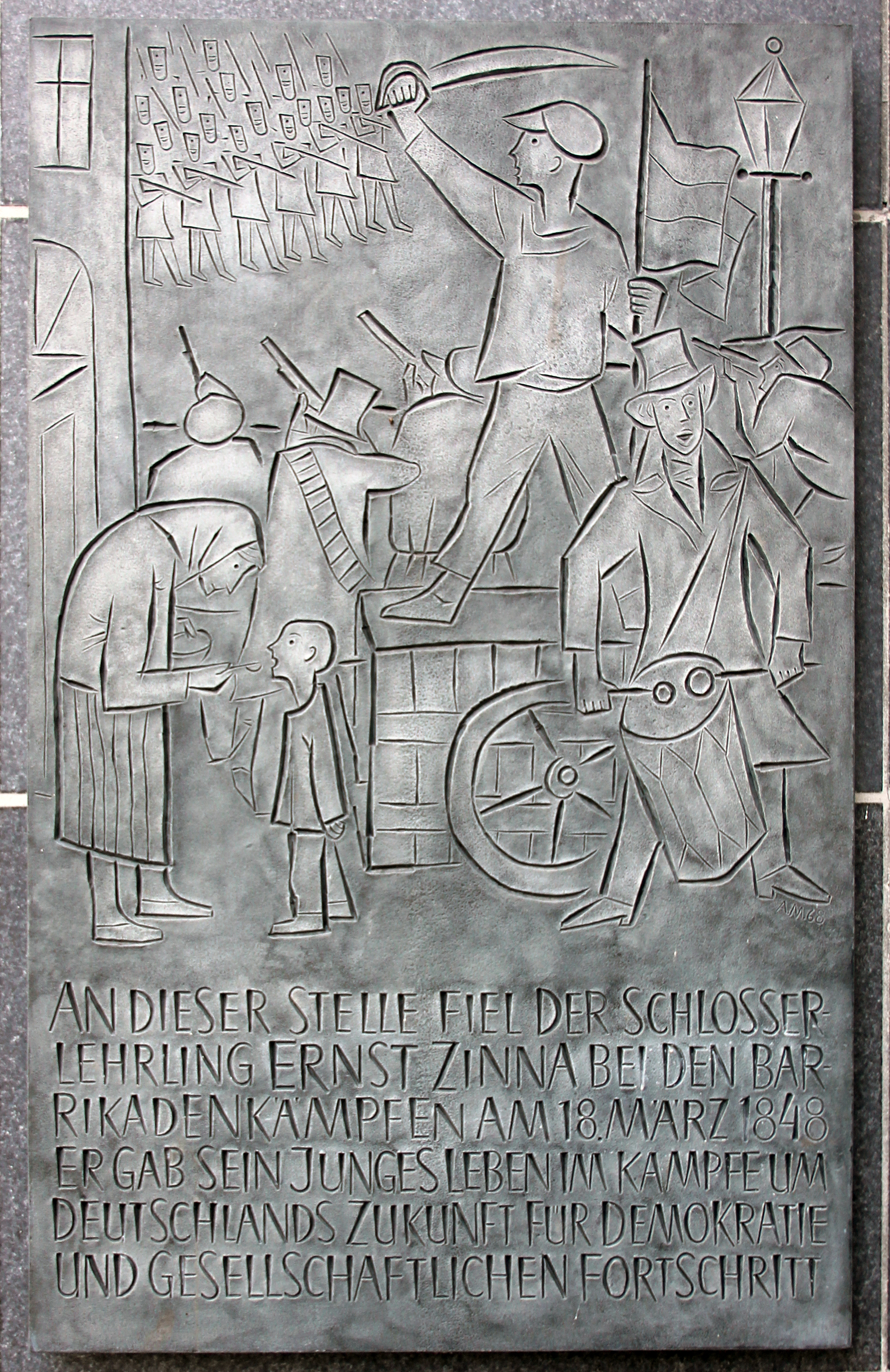 Memorial plaque, Ernst Zinna by Arno Mohr, Jägerstraße 63c, Berlin-Mitte, Deutschland